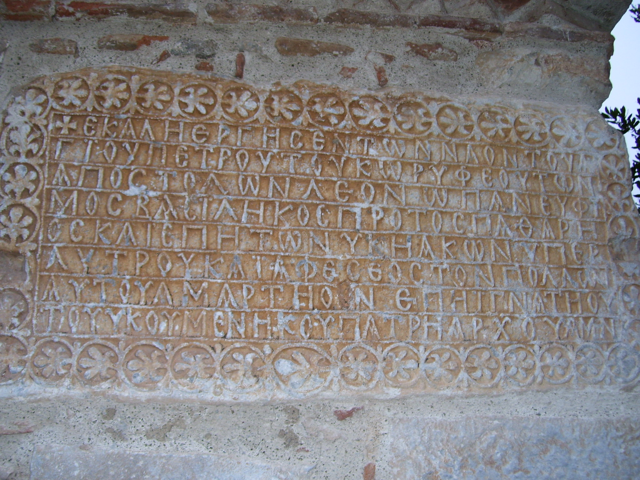 Script in Panagia Scripou church (Orchomenos,Greece)